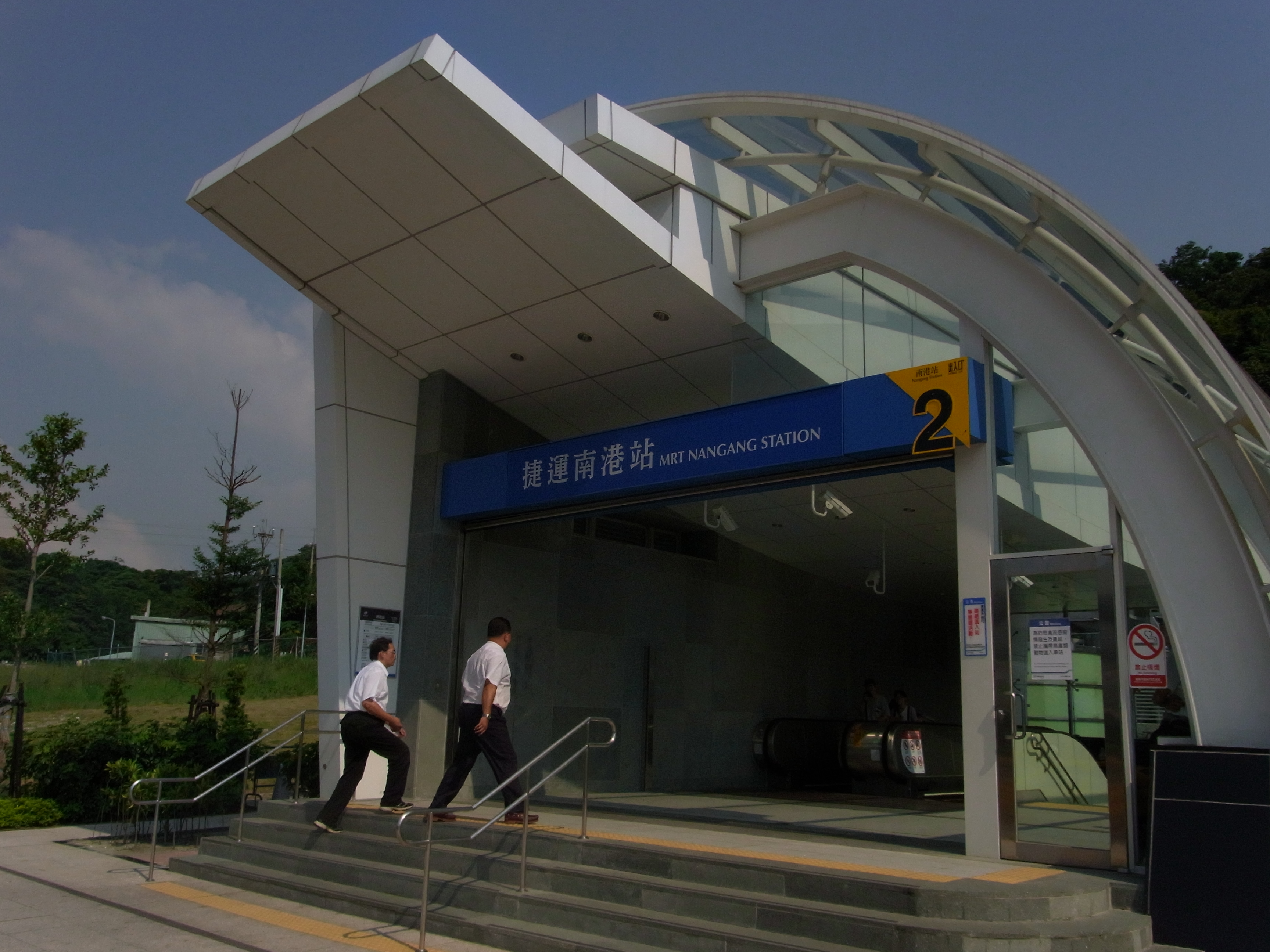 Exit 2, Nangang Station, Taipei MRT.